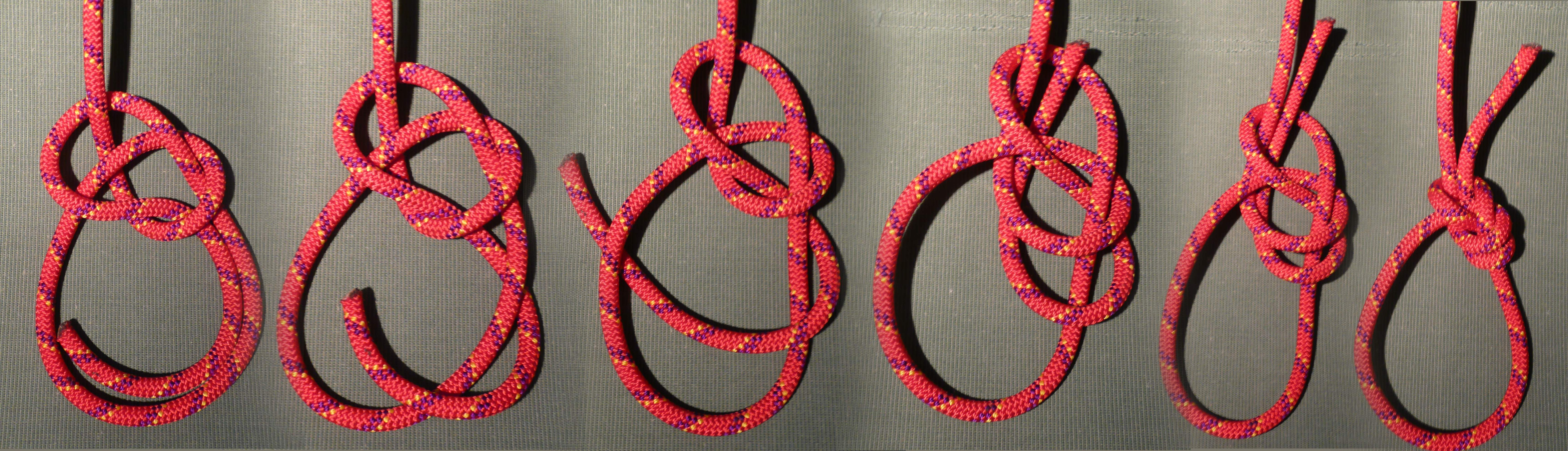 new correct yosemite bowline